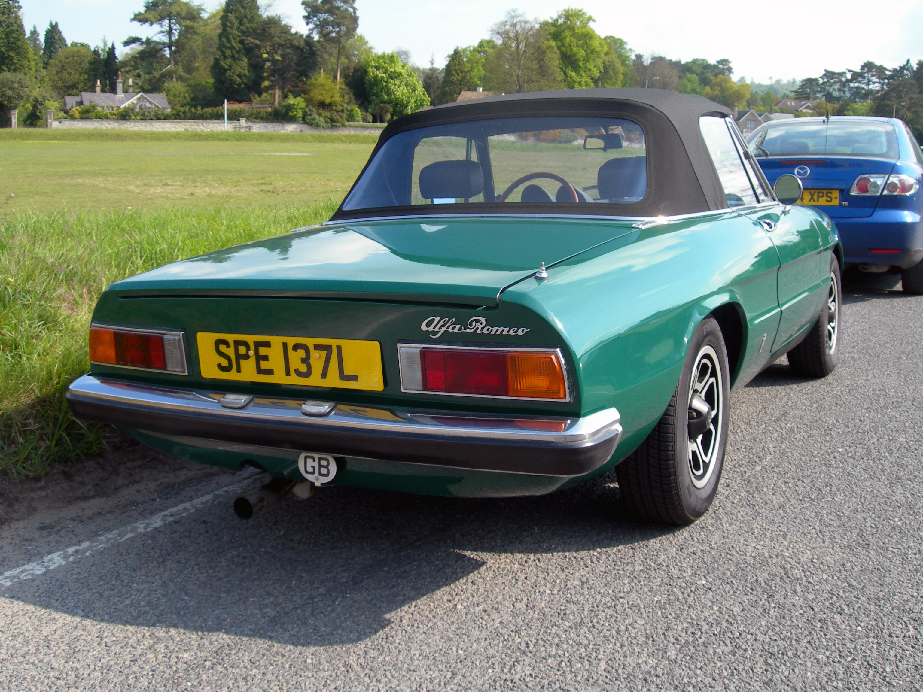 Reigate Heath,May 2010